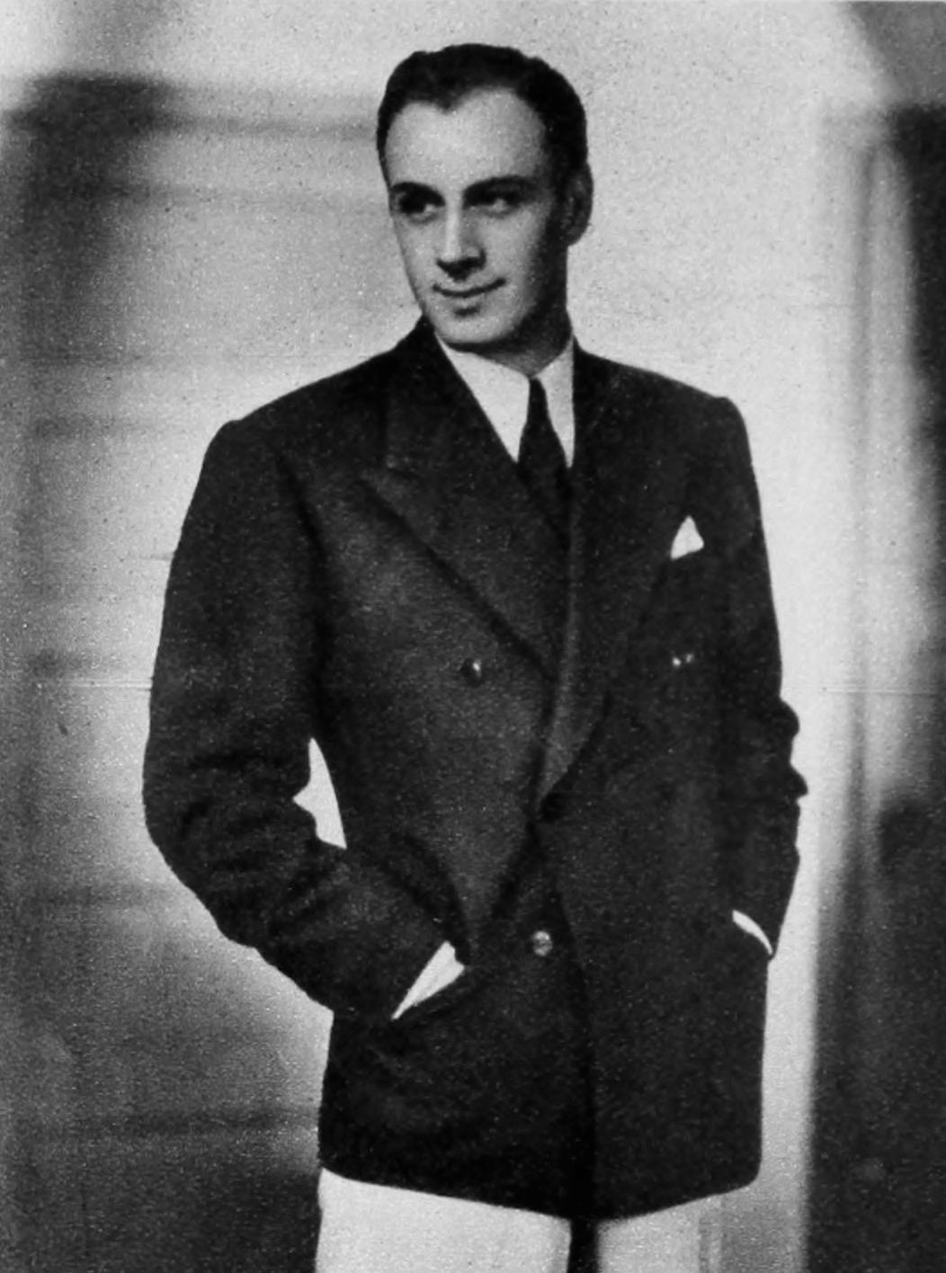 Published posthumously in Radio Stars, Dec. 1934